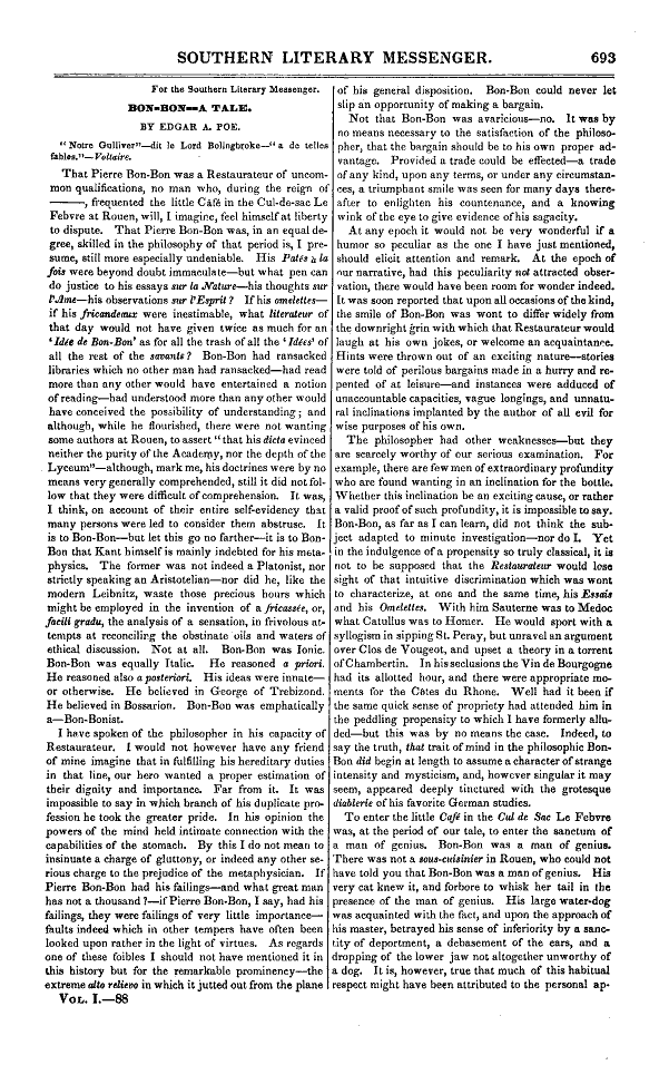 "Bon-Bon - A Tale" by Edgar Allan Poe